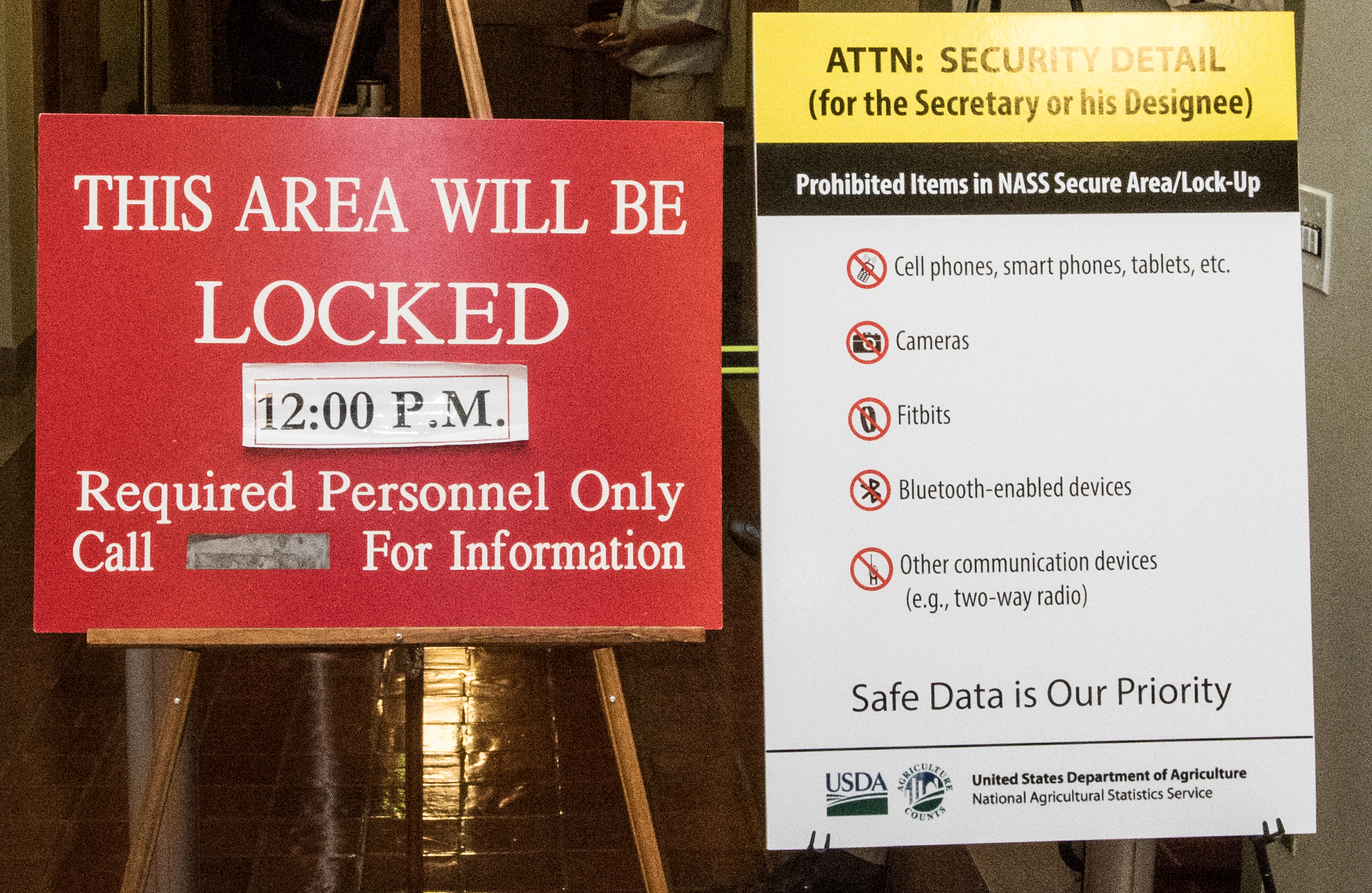 A cellular phones and other communication devices are stored, before entering the U.S. Department of Agriculture (USDA) National Agricultural Statistics Service (NASS) lockup facility for a briefing about cotton ginnings, cranberries, and crop production, in Washington, D.C., on Thursday, August 10, 2017. Before entering the Lockup facility, visitors are given a briefing on NASS history and processes, then given a chance to ask questions. Inside the facility, visitors and staff are required to remove and secure electronic communication devices before entering. Statisticians who are secured in the facility over night generate the reports. The finished reports are released to press journalists two hours early, so they can write their stories within a data secure room. Their stories are sent and the reports are made publicly available, at 12 noon. USDA Photo by Lance Cheung.